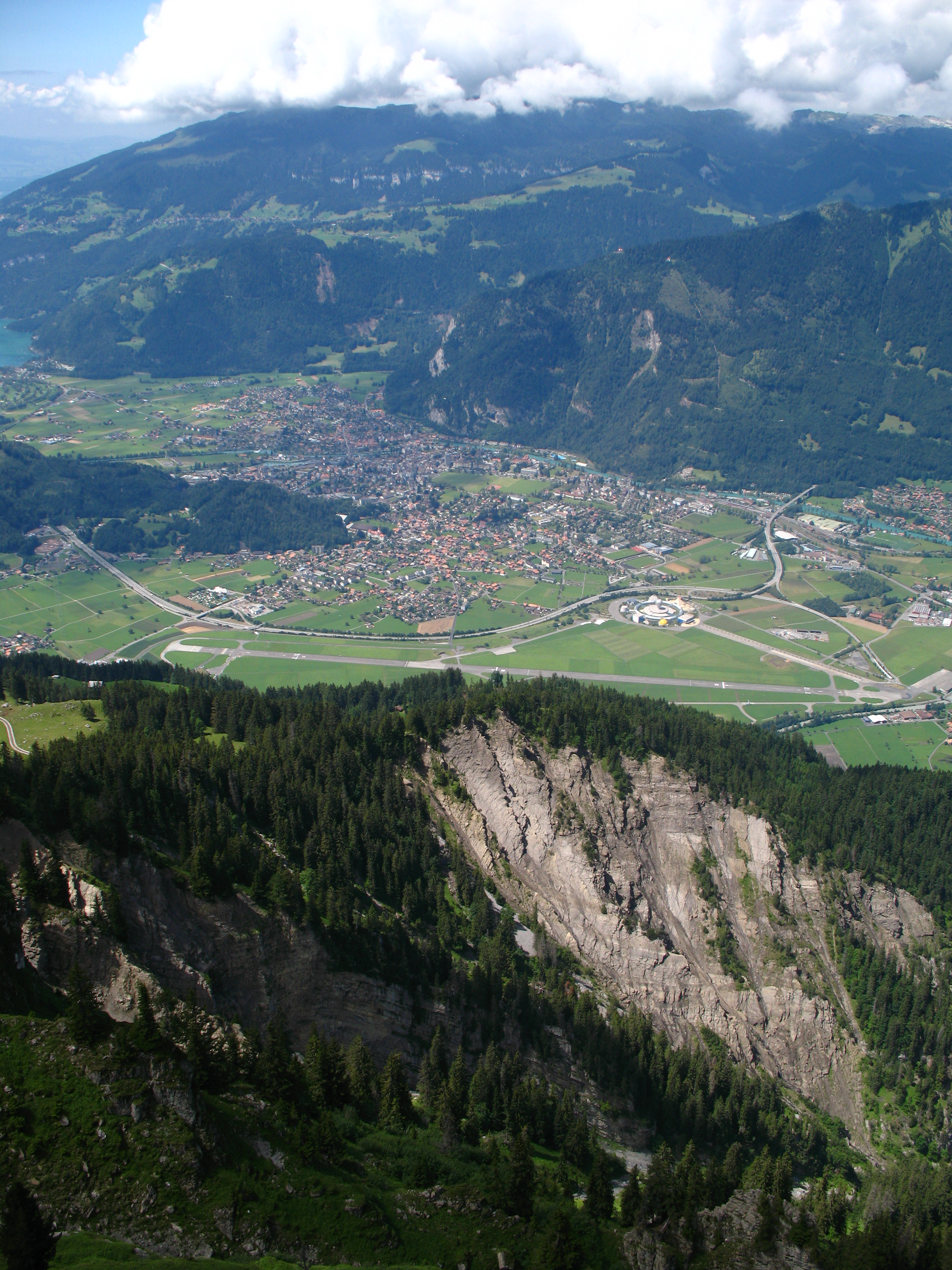 Interlaken Ost, Matten, and Goldswil viewed from Schynige Platte, Switzerland